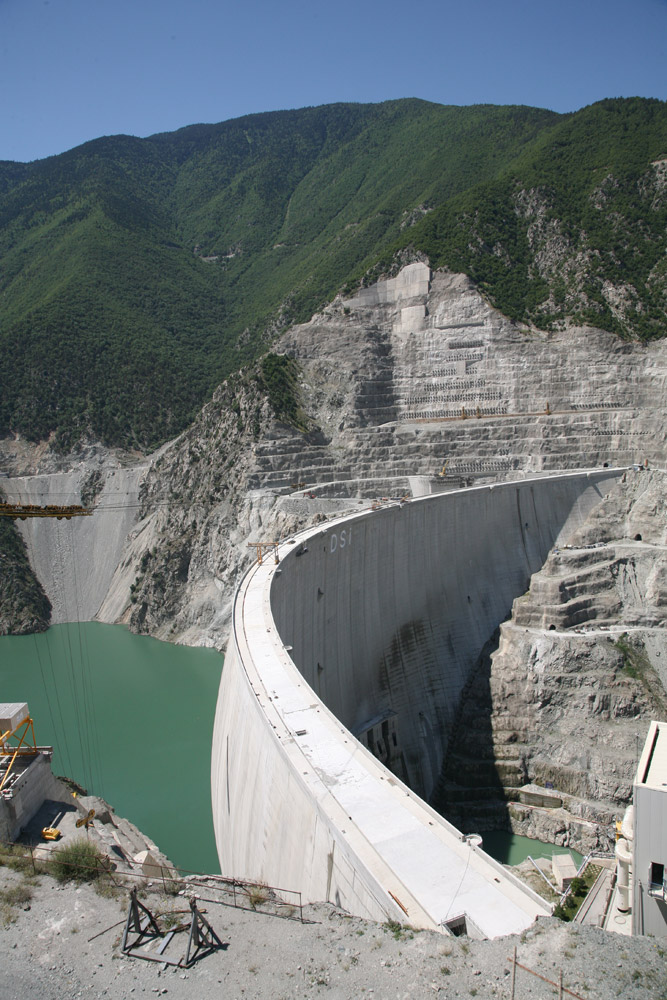 During Construction of Deriner Dam